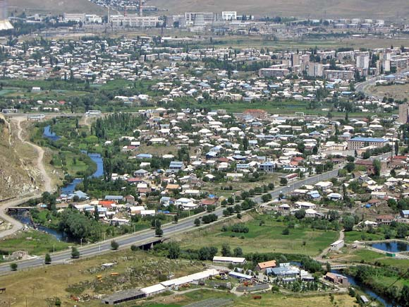 Hrazdan city